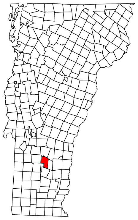 Map of Vermont towns with Weston highlighted